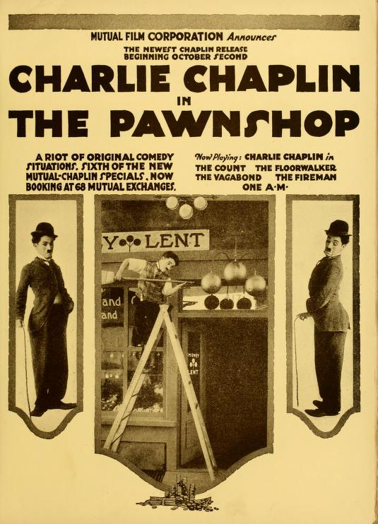 Advertisement in Moving Picture World for the American comedy film The Pawnshop (1916).